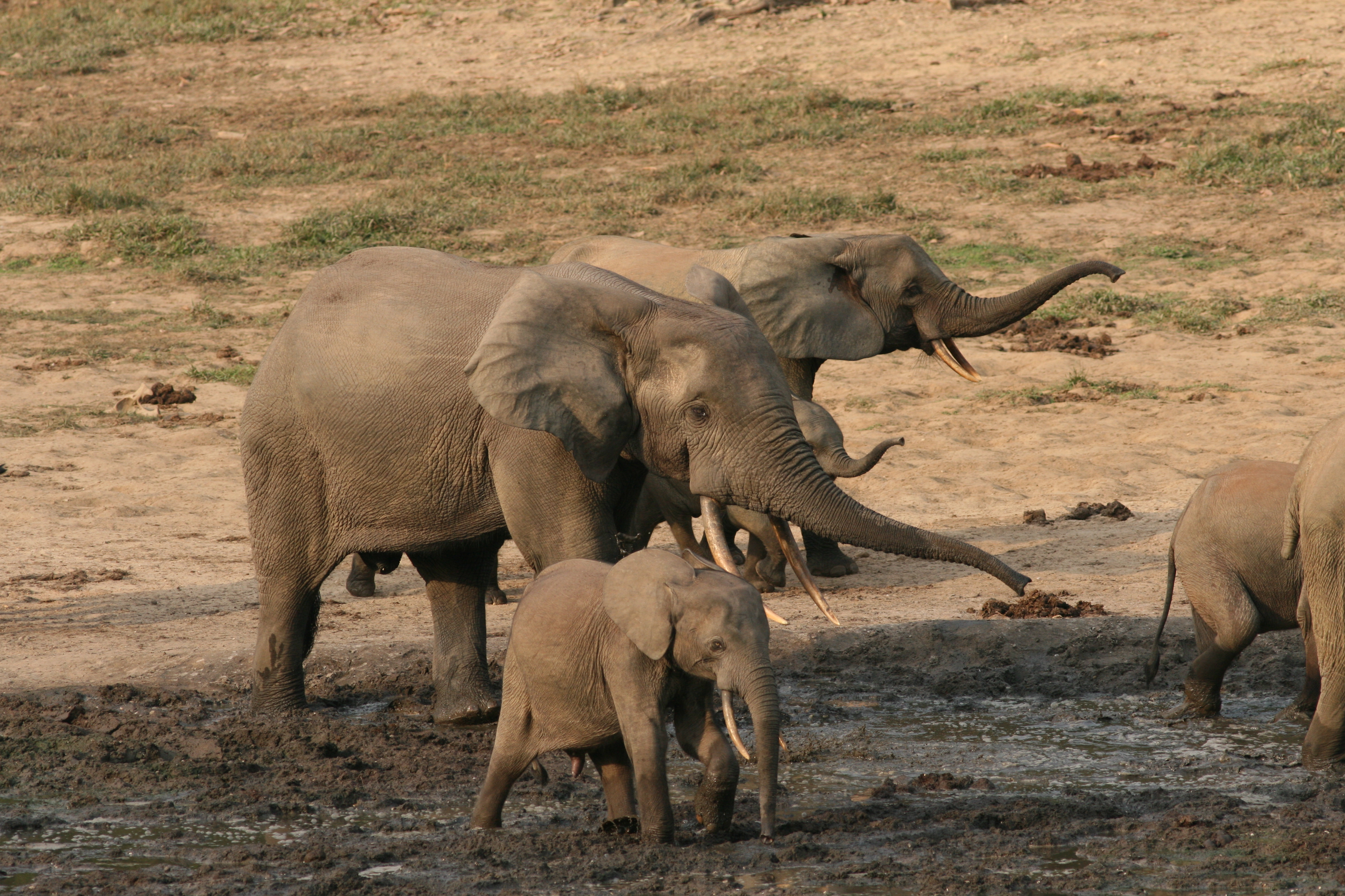 Forest elephants gather at clearings, which unfortunately makes them susceptible to ambush by poachers. Credit: Richard Ruggiero/USFWS